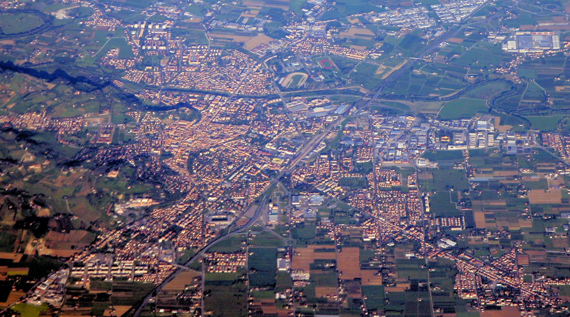 Cesena, Emilia-Romagna, Italy.